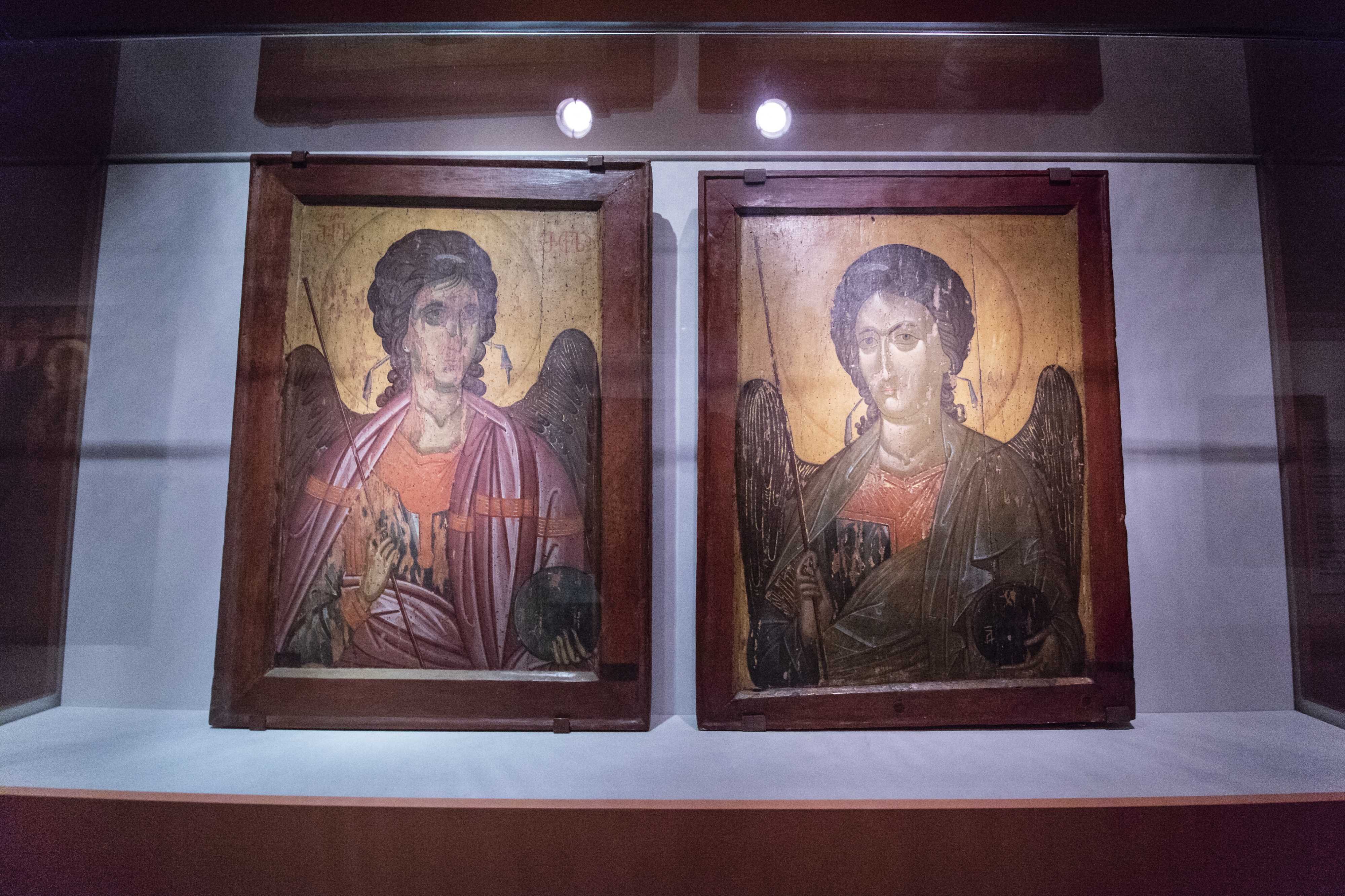 The Georgian National Museum unifies several leading museums in Georgia.